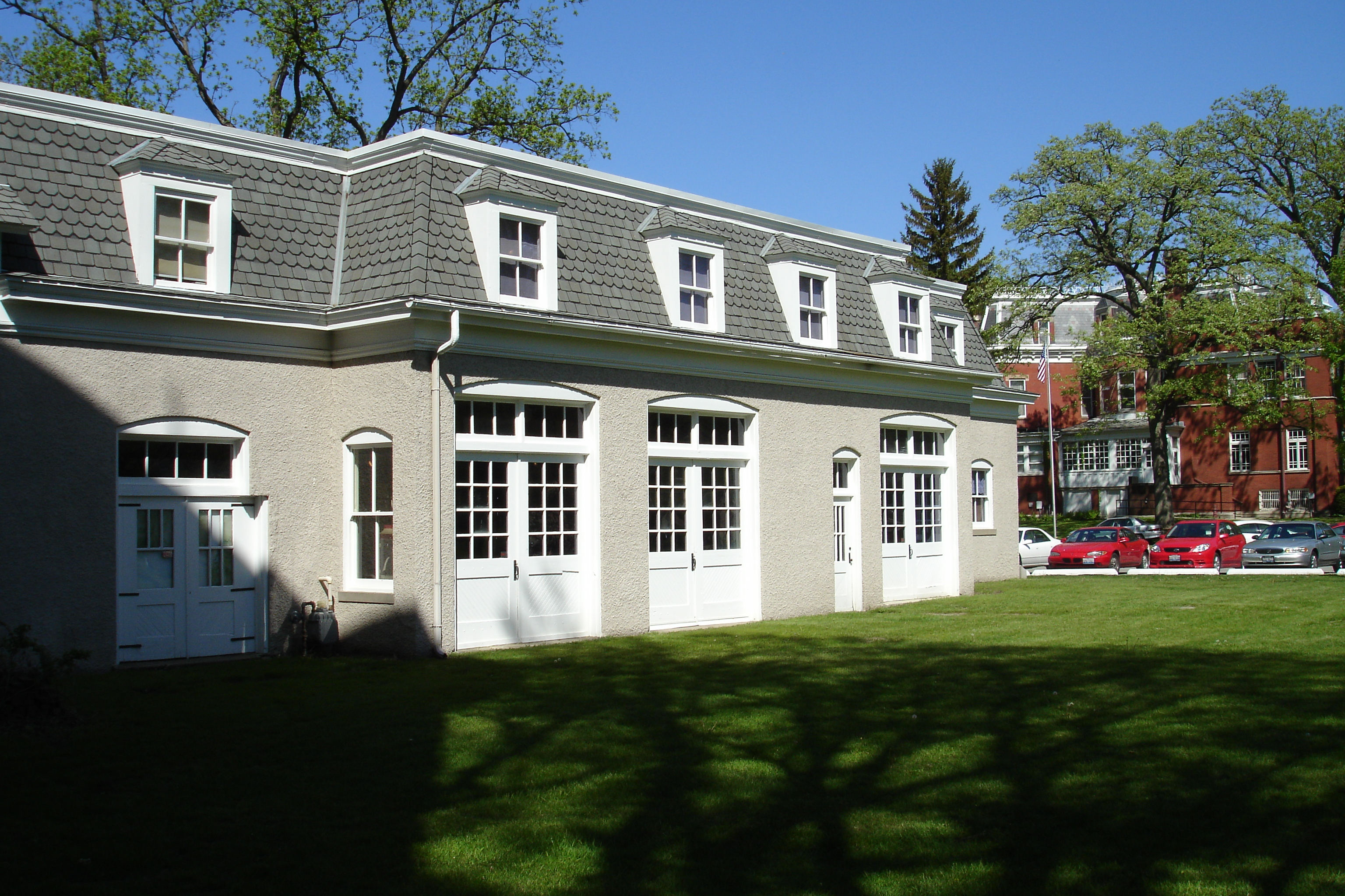 Ellwood House, DeKalb, Illinois. National Register of Historic Places.